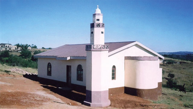 Baitul Hadi Mosque, Hiatikulu, Swaziland